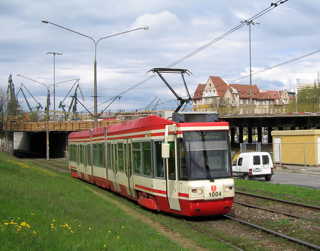 Alstom NGd99 #1004 tram in Gdańsk